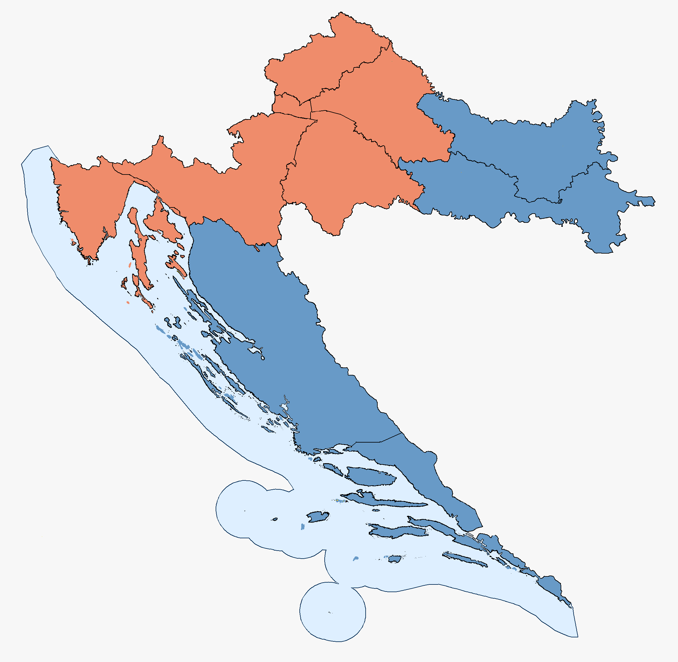 The results of the Croatian parliamentary election held on 25 November 2007, by electoral districts.